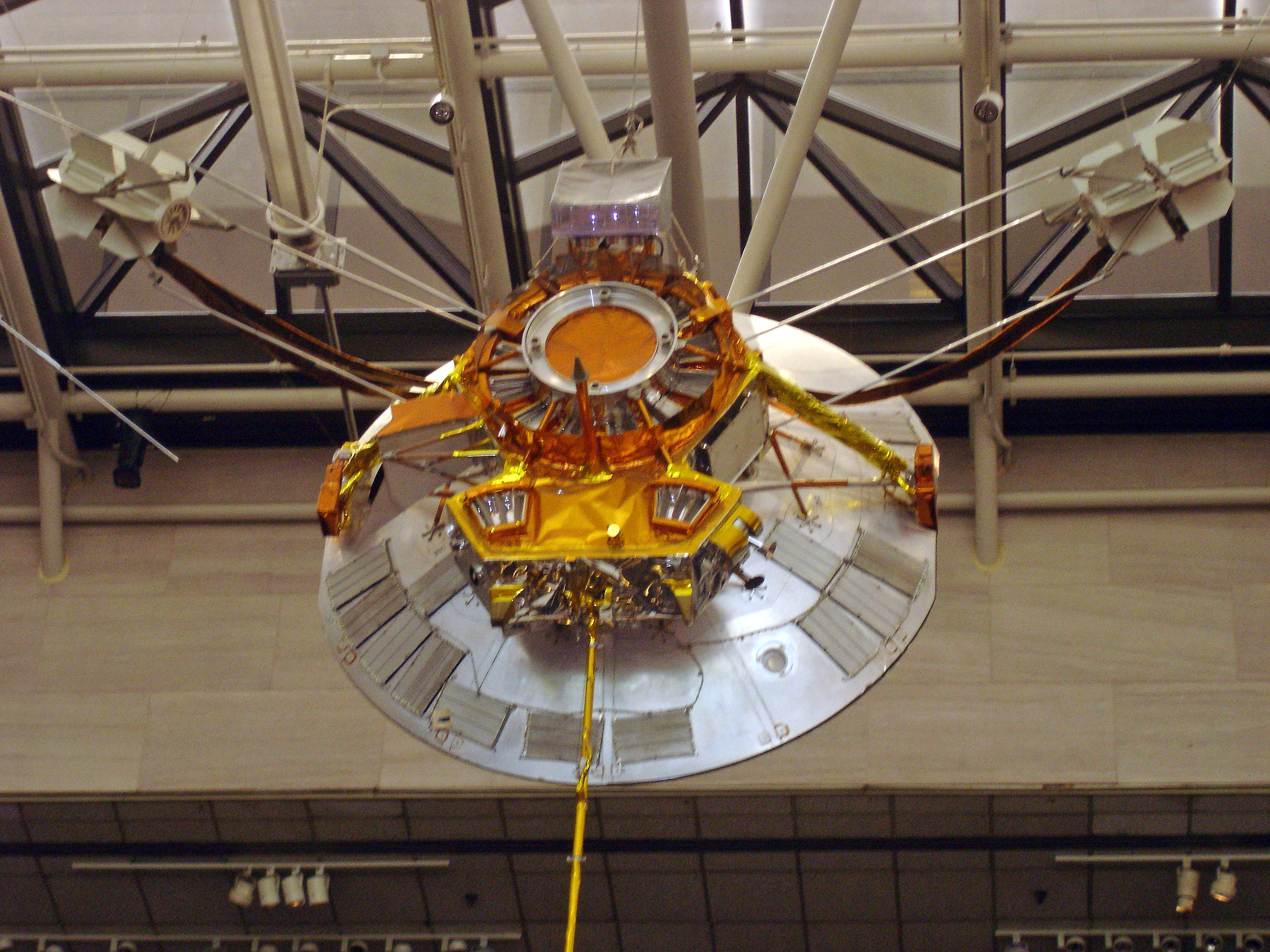 A picture I took on my senior trip